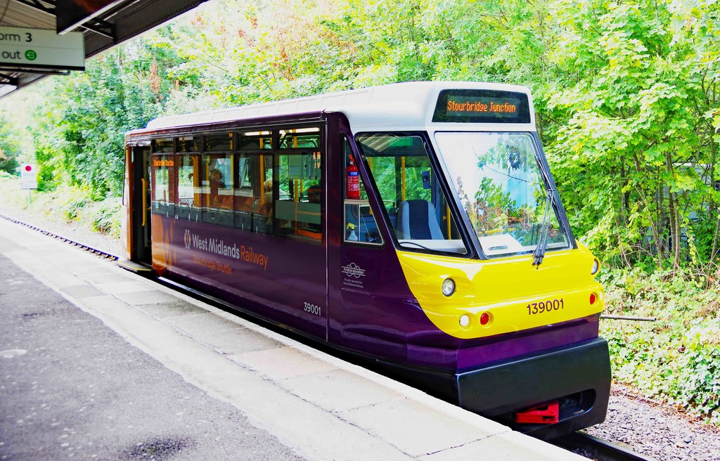 Parry People Mover 139001 at Stourbridge Junction Railway Station